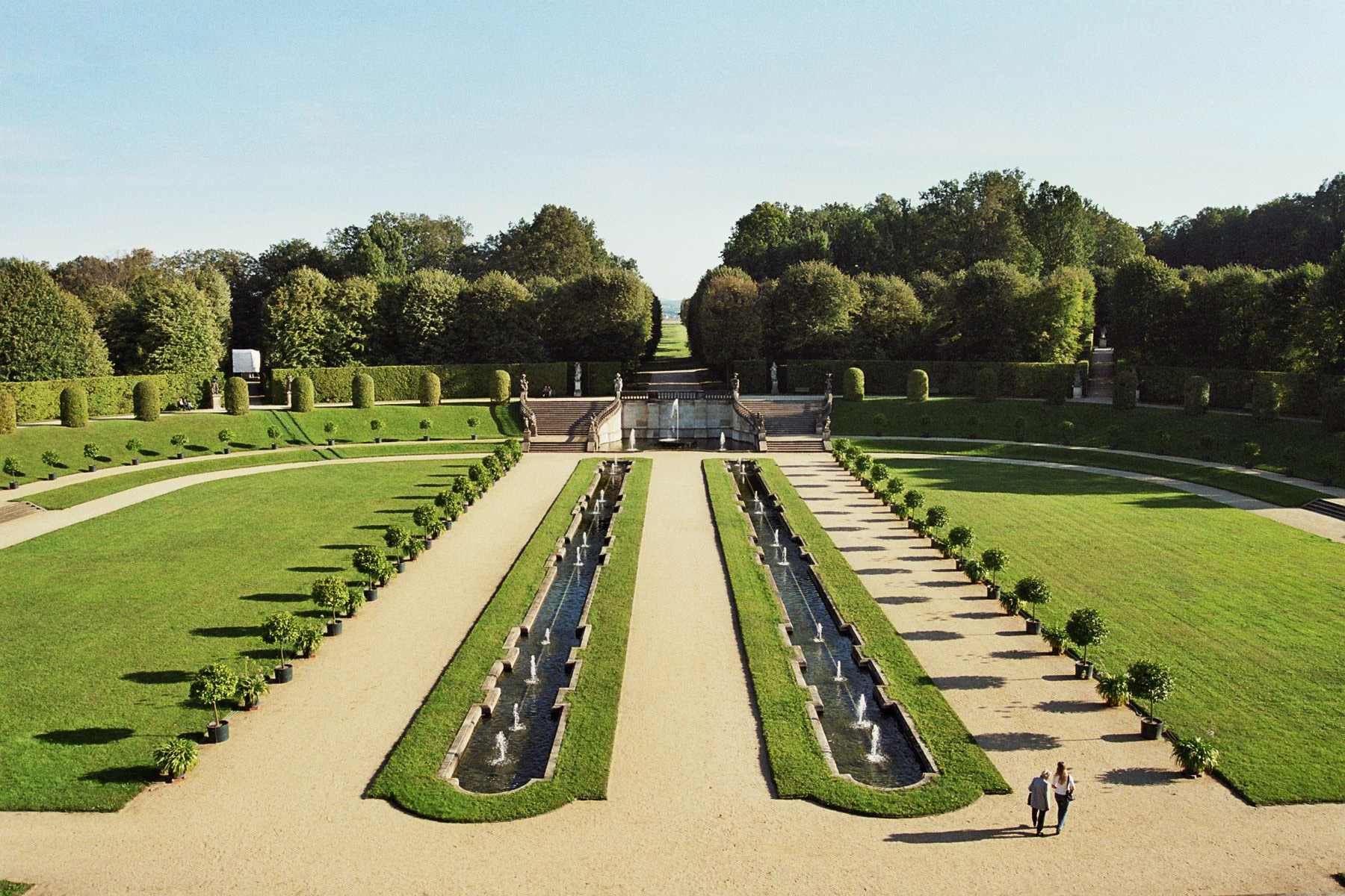 This image shows a part of Großsedlitz baroque garden in Heidenau near Dresden in Saxony, Germany.